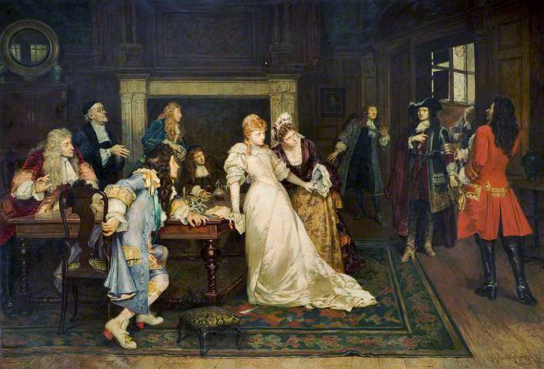 "The Bride of Lammermoor", scene from Walter Scott's historical novel